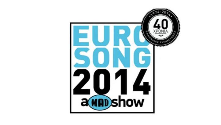 eurosong14